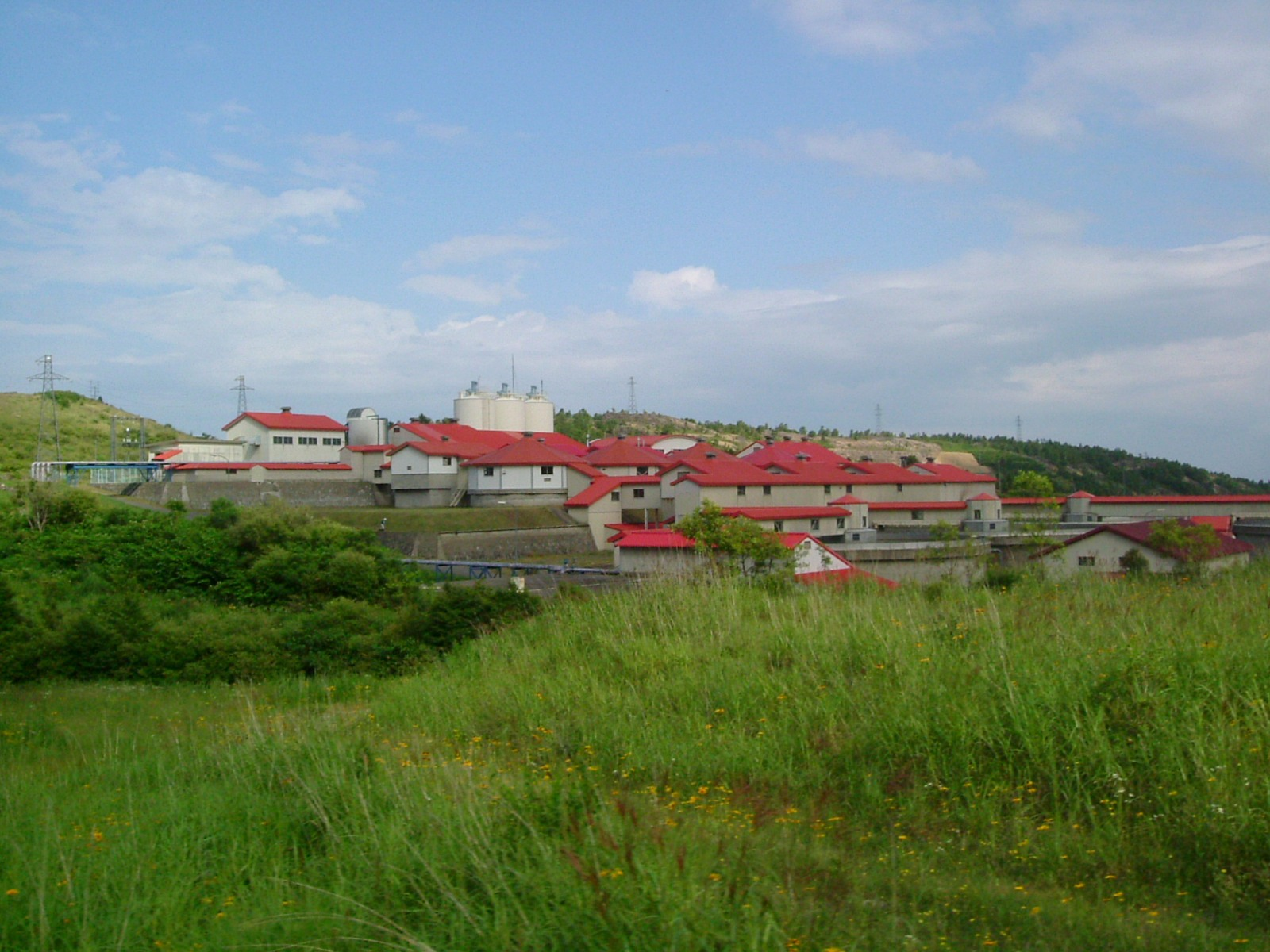 Neutralisation facility at the former Matsuo Mine in Hachimantai City, Iwate Prefecture, Japan